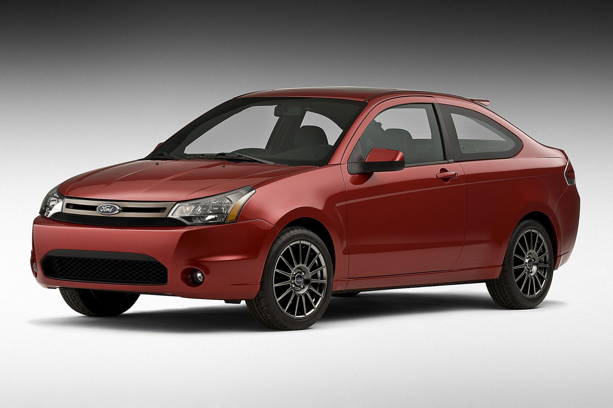 2009 Ford Focus Coupe